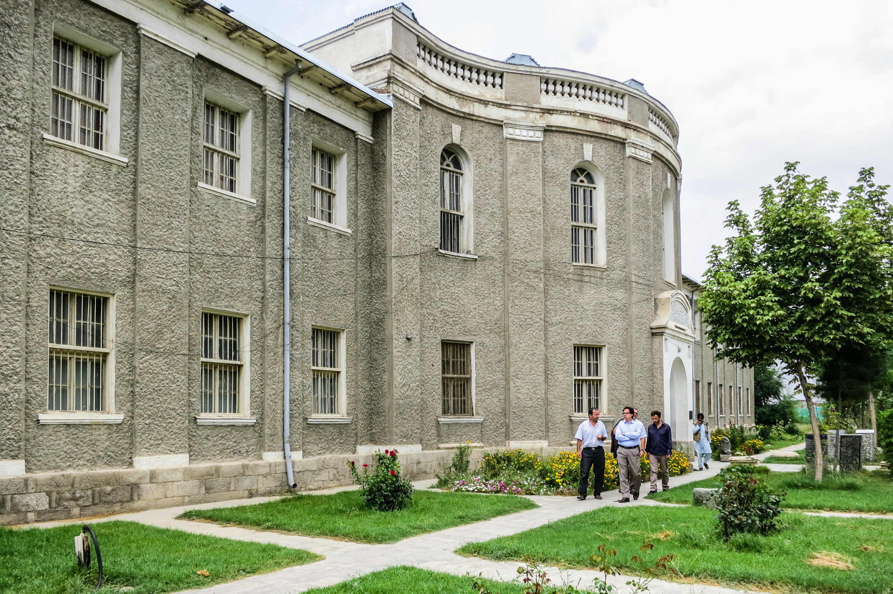 National Museum of Afghanistan in Kabul